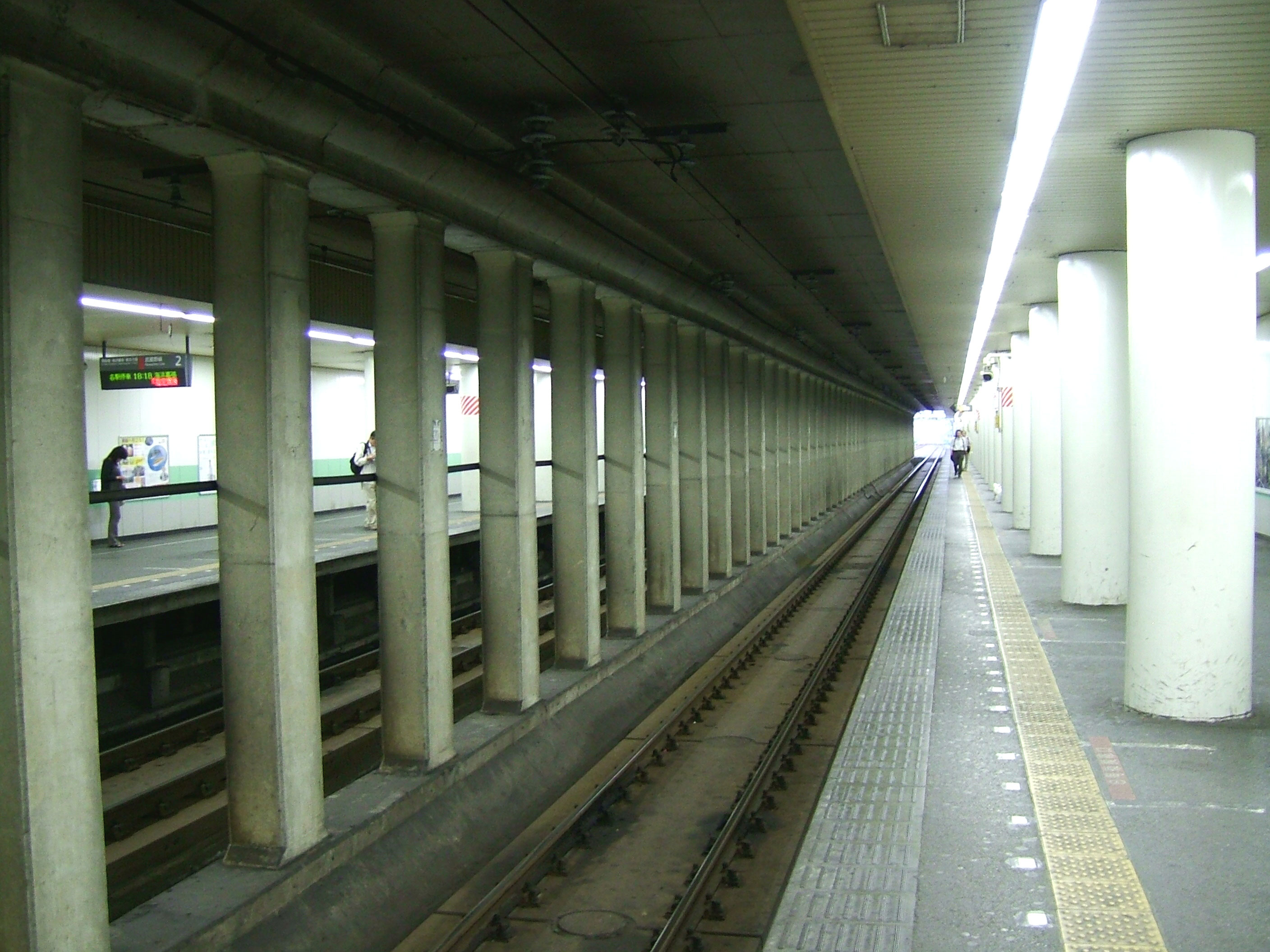 Shin-Yahashira Station platform (East Japan Railway Musashino Line)